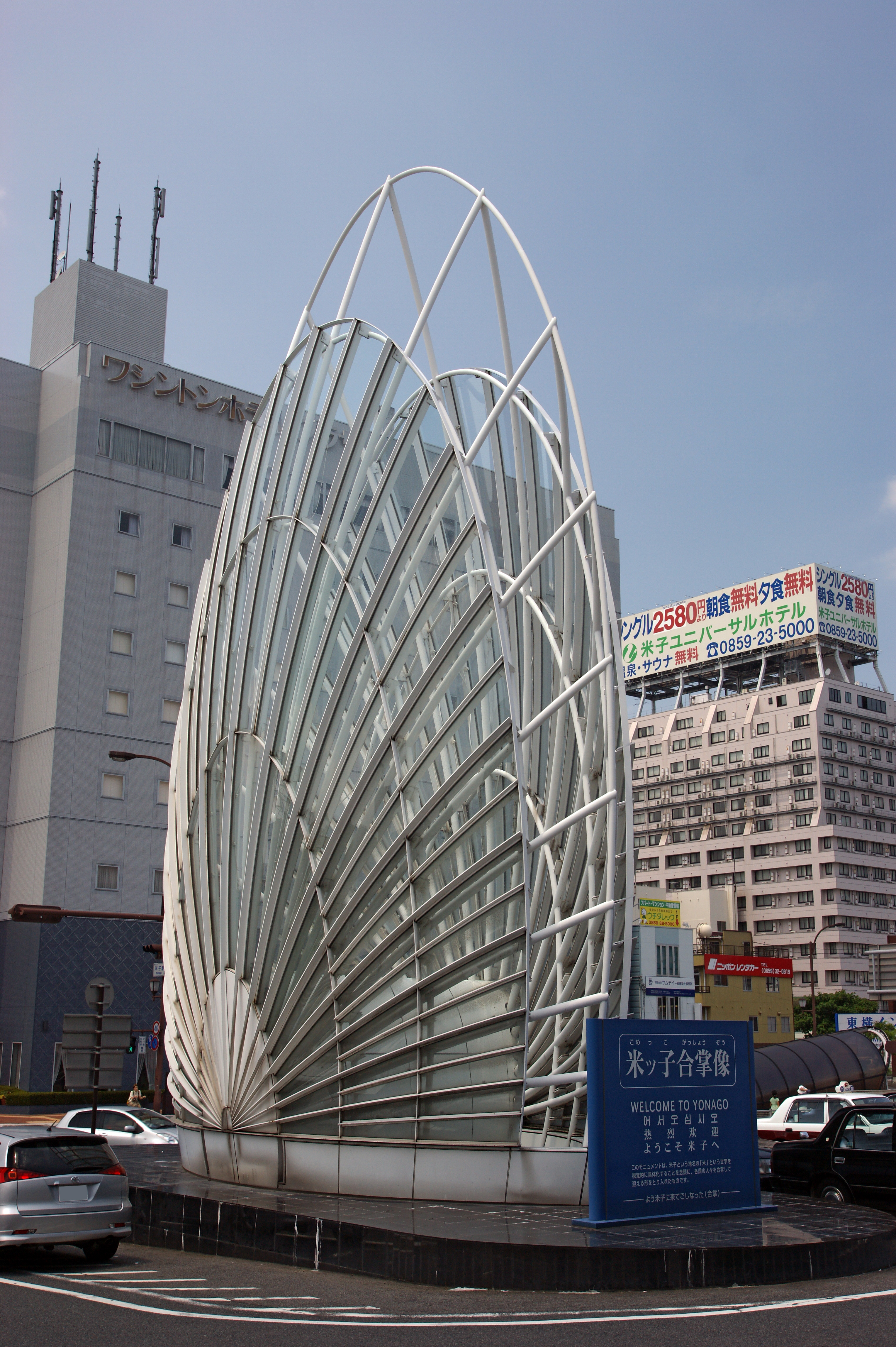 Yonago Station in Yonago, Tottori prefecture, Japan